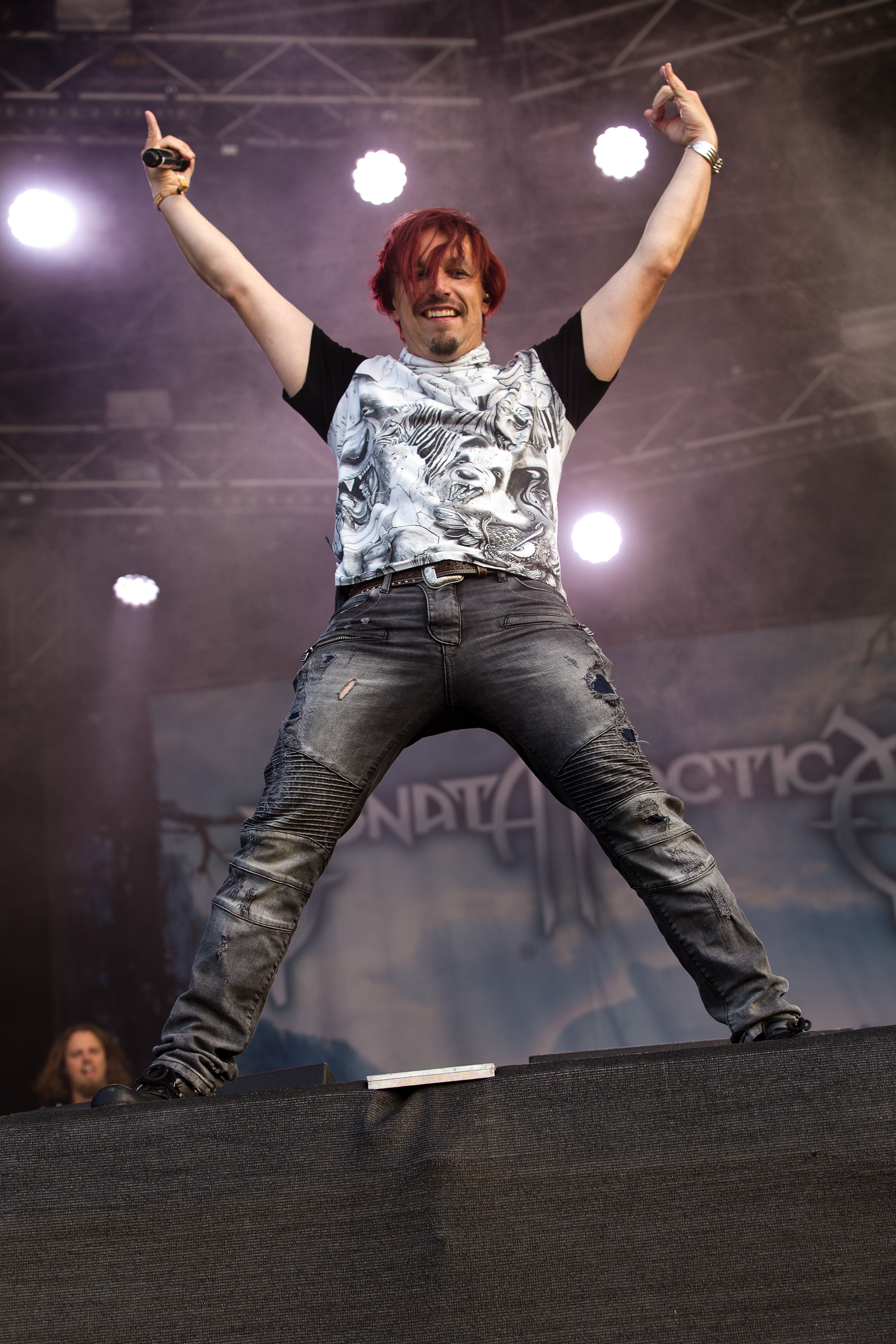 The Finnish power metal band Sonata Arctica at the Rockharz Open Air 2016 in Ballenstedt/Germany.